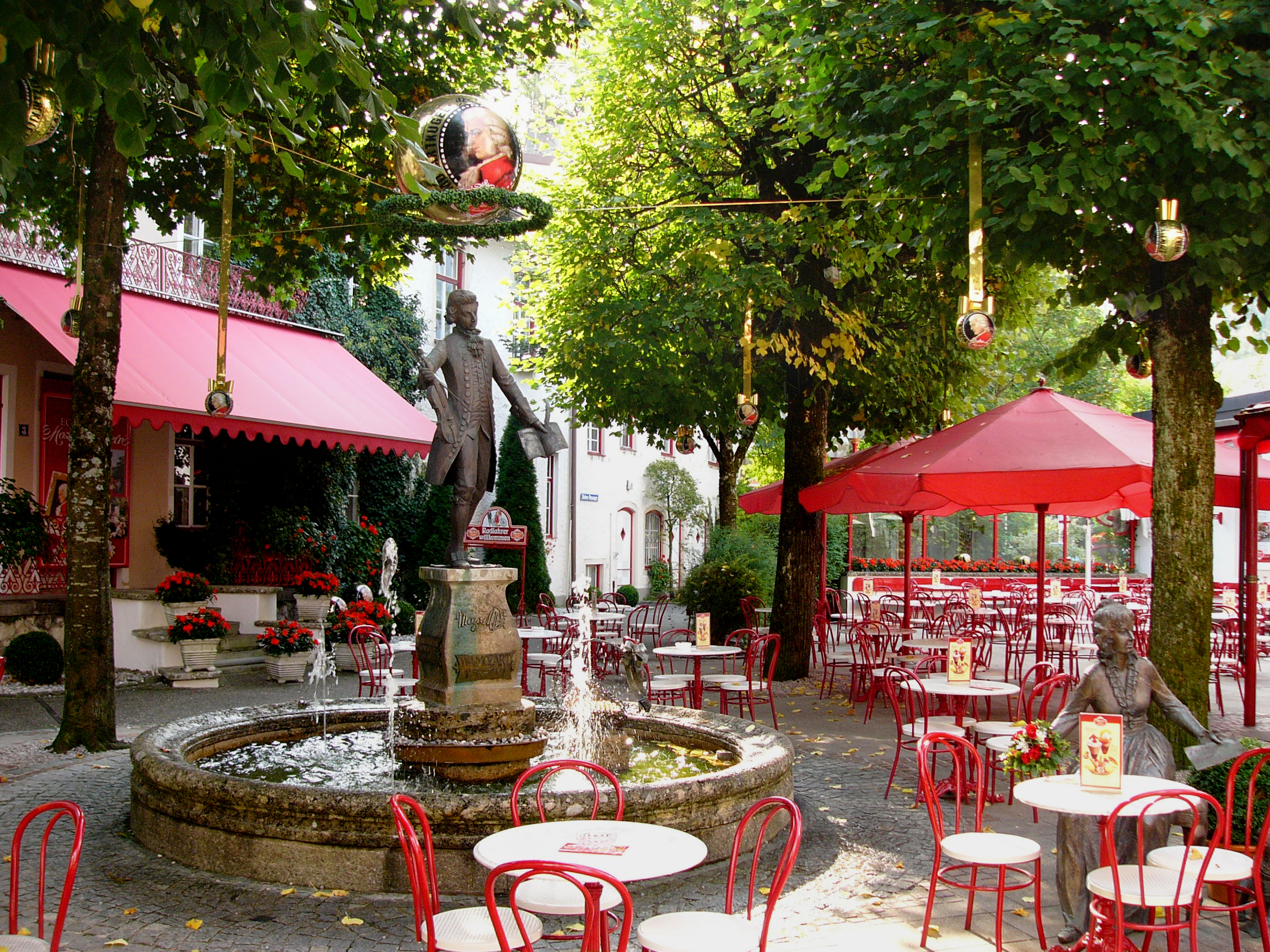 Café Reber in Bad Reichenhall, Germany